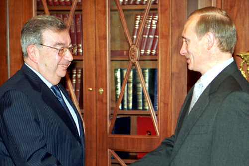 THE KREMLIN, MOSCOW. President Putin with Yevgeny Primakov, leader of the Fatherland-All Russia party in the State Duma.